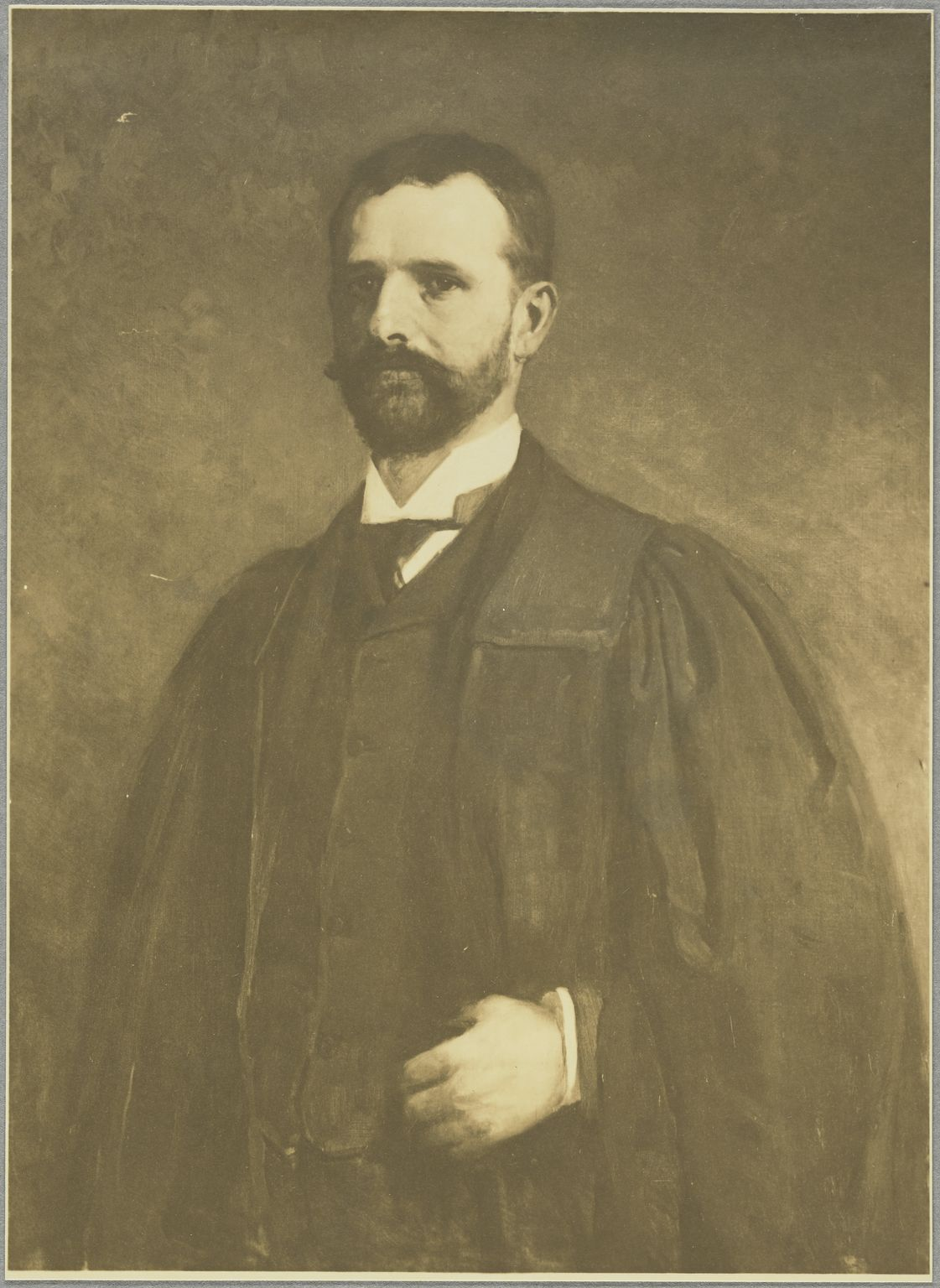 Title:Algernon Sydney Biddle. Author/Artist:Beaux, Cecilia, 1855-1942 Creation Date:1875 40 x 30 in. oil on canvas. Provenance:Presented by the subject's family to the University of Pennsylvania, Philadelphia (housed by 1918 in the Law Building). Current Repository:University of Pennsylvania, Philadelphia, Pennsylvania, United States